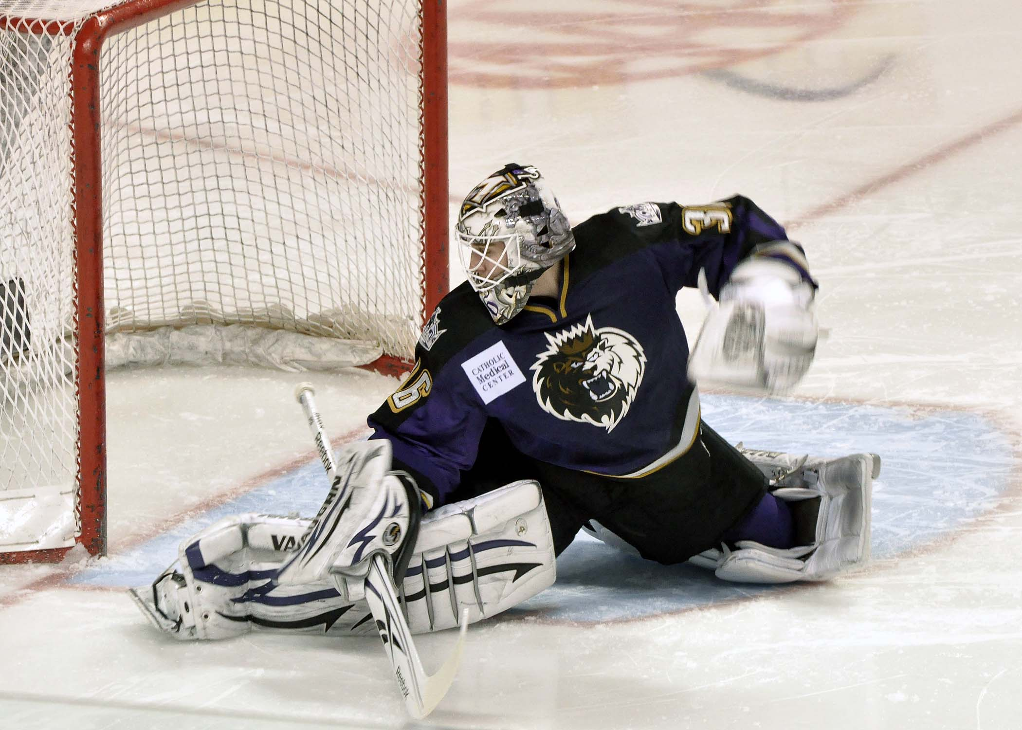 Jeff Zatkoff (#36)goalie for AHL Manchester Monarchs hockey team during a game at the Arena at Harbor Yard in Bridgeport, Connecticut on February 20, 2011 against the Manchester Monarchs. The Manchester Monarchs are the affiliate of the Los Angeles Kings.